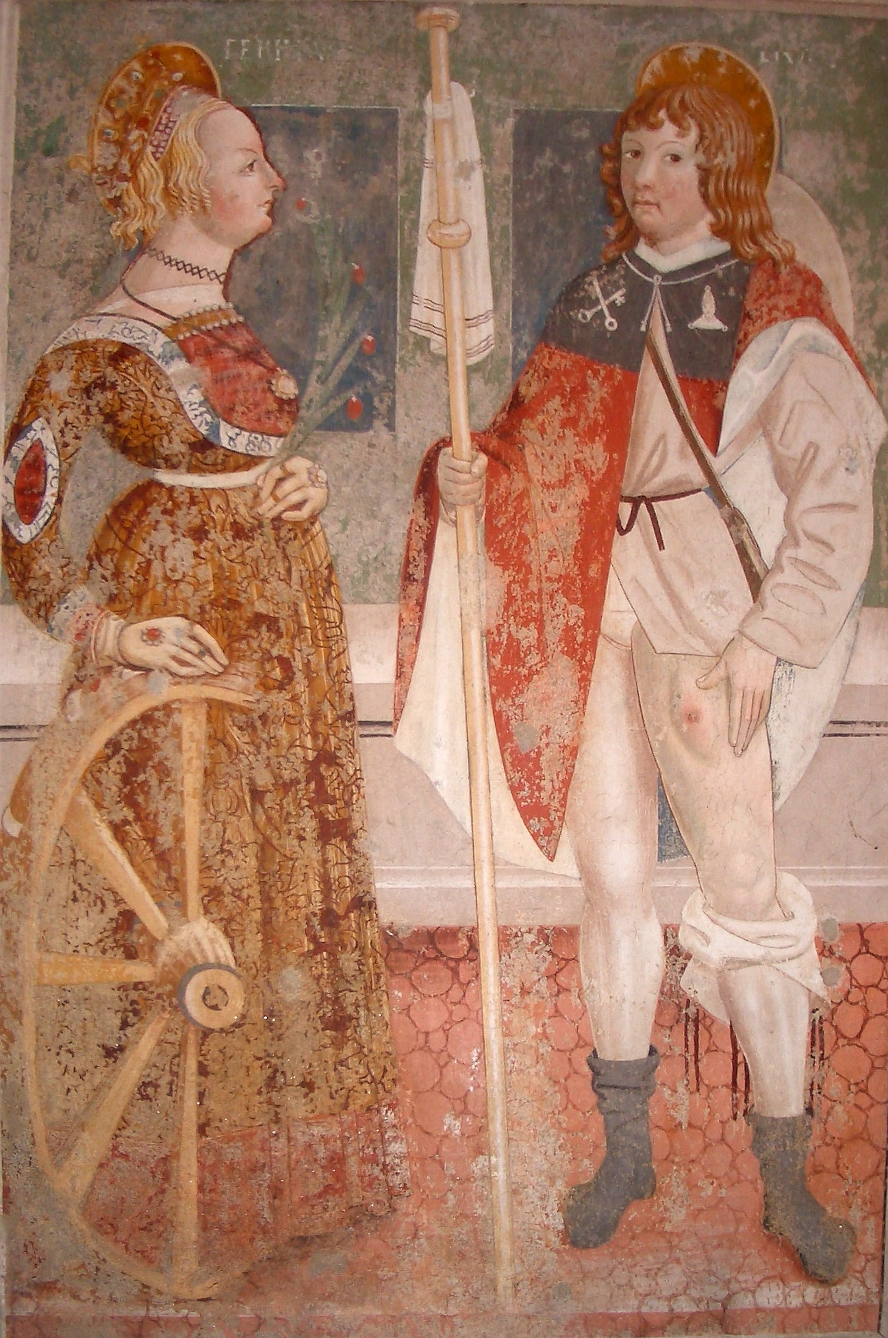 Giovanni Antonio Merli (?), Saint Catherine of Alexandria and Saint Roch, fresco, 1480, in the church of St. Nazzaro and Celso Abbey, San Nazzaro Sesia, Novara, Italy.